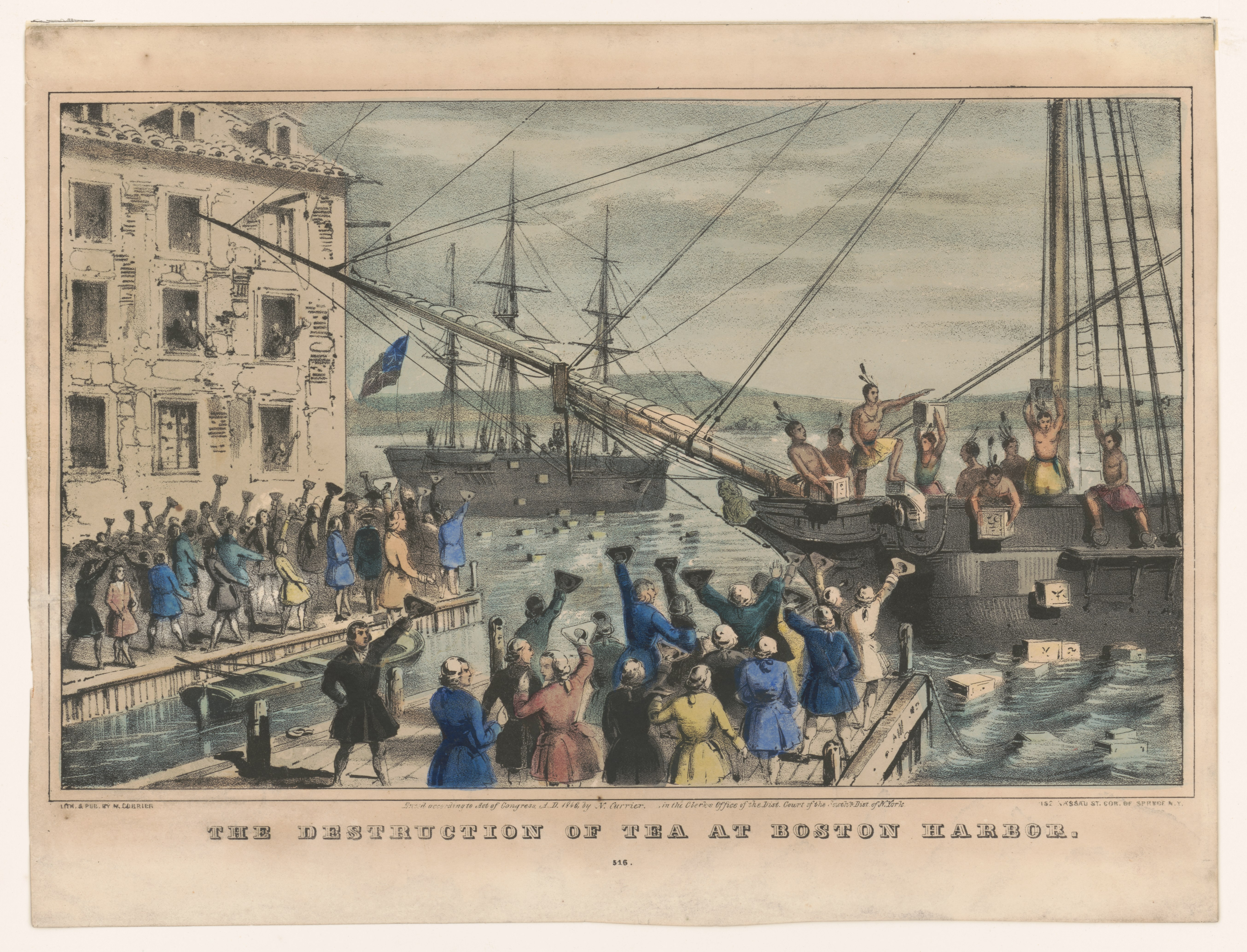 Title: Destruction of tea at Boston Harbor Abstract/medium: 1 print : lithograph, hand-colored.